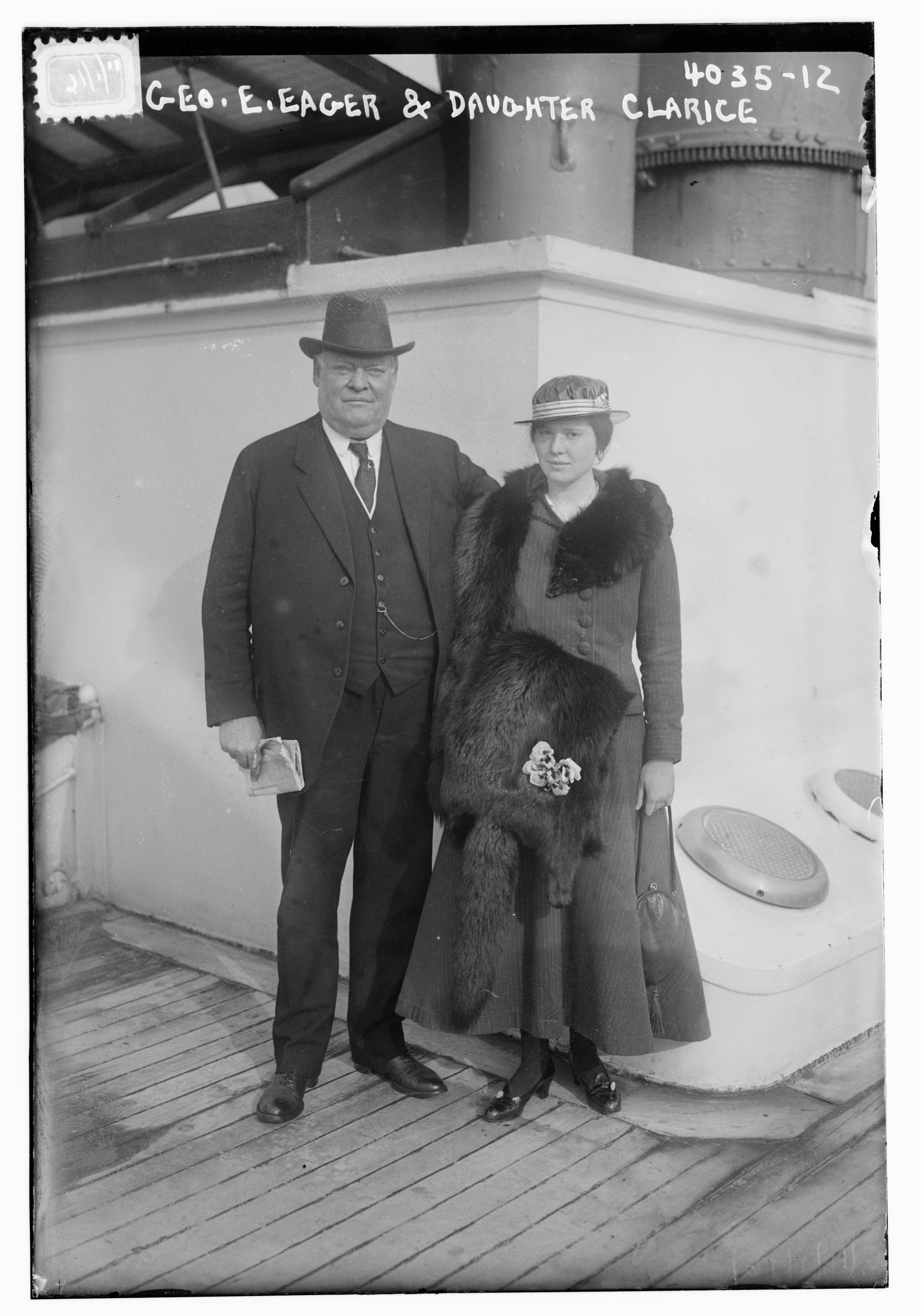 George Eugene Eager and his daughter Clarice Eager on October 31, 1916 aboard the Noordam